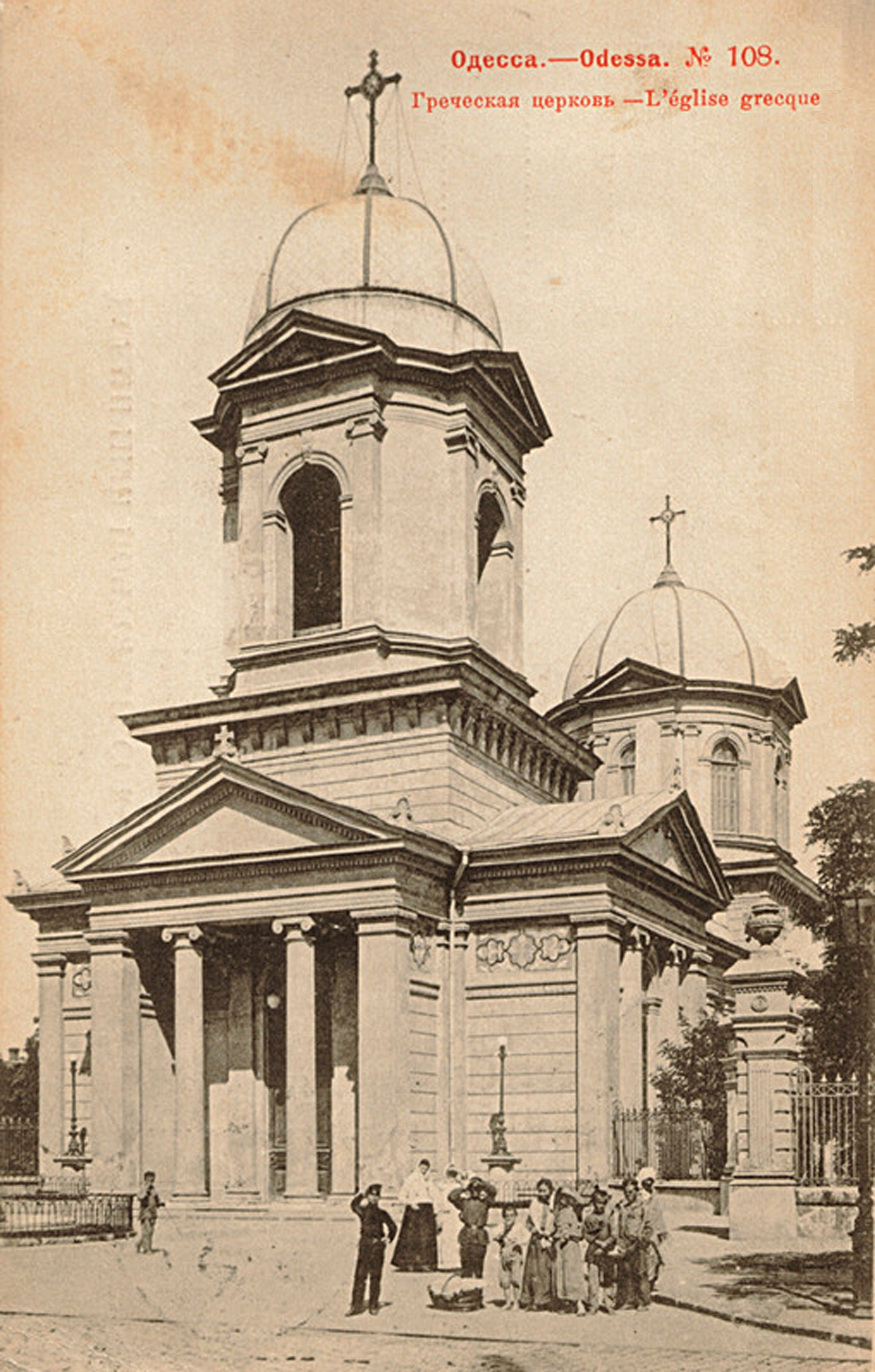 Greek church, Odessa.